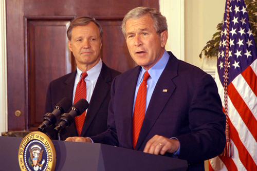 President George W. Bush names Representative Christopher Cox as his nominee for SEC Chairman